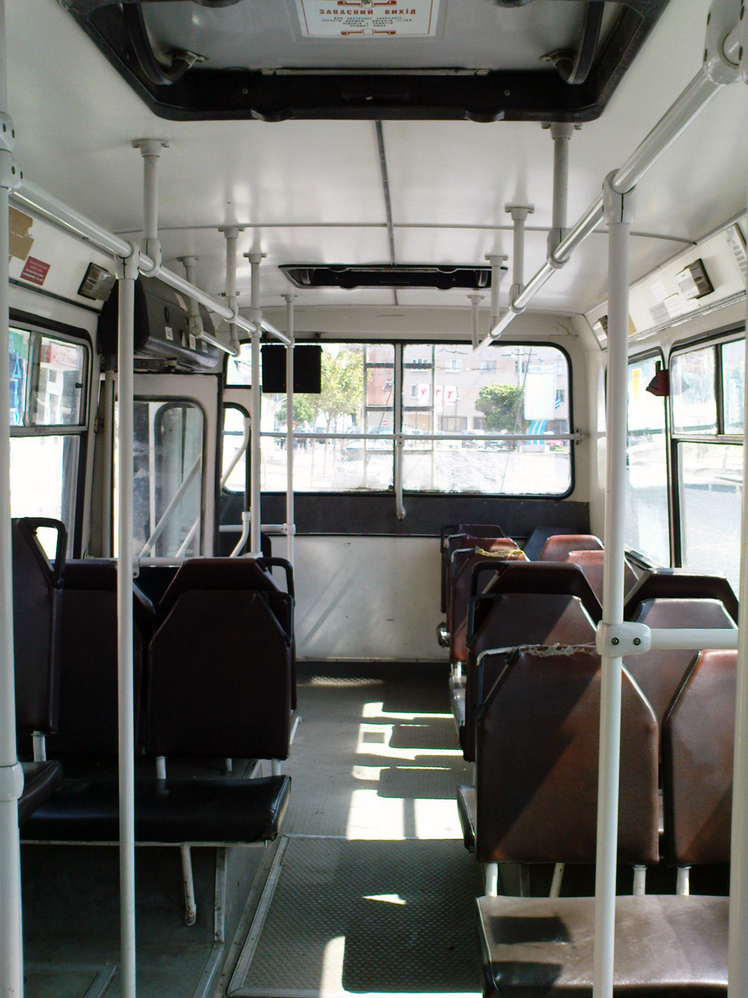 LAZ 52522 salon.